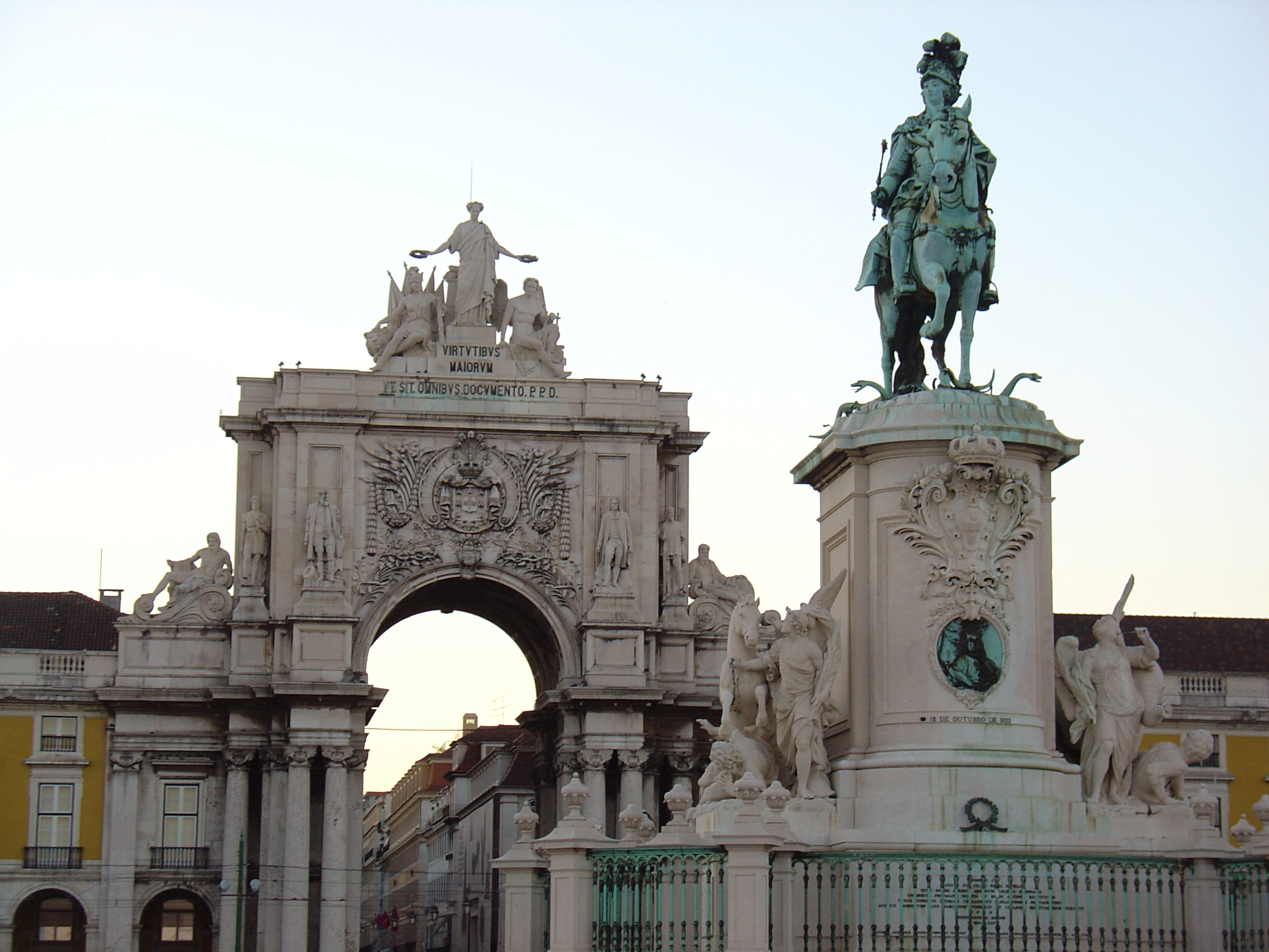 Praça do Comércio), Lisbon (Portugal)